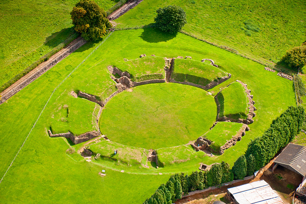 Aerial view of Caerleon Roman amphitheatre, Newport; looking South.